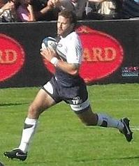 Try to Kevin Swiryn